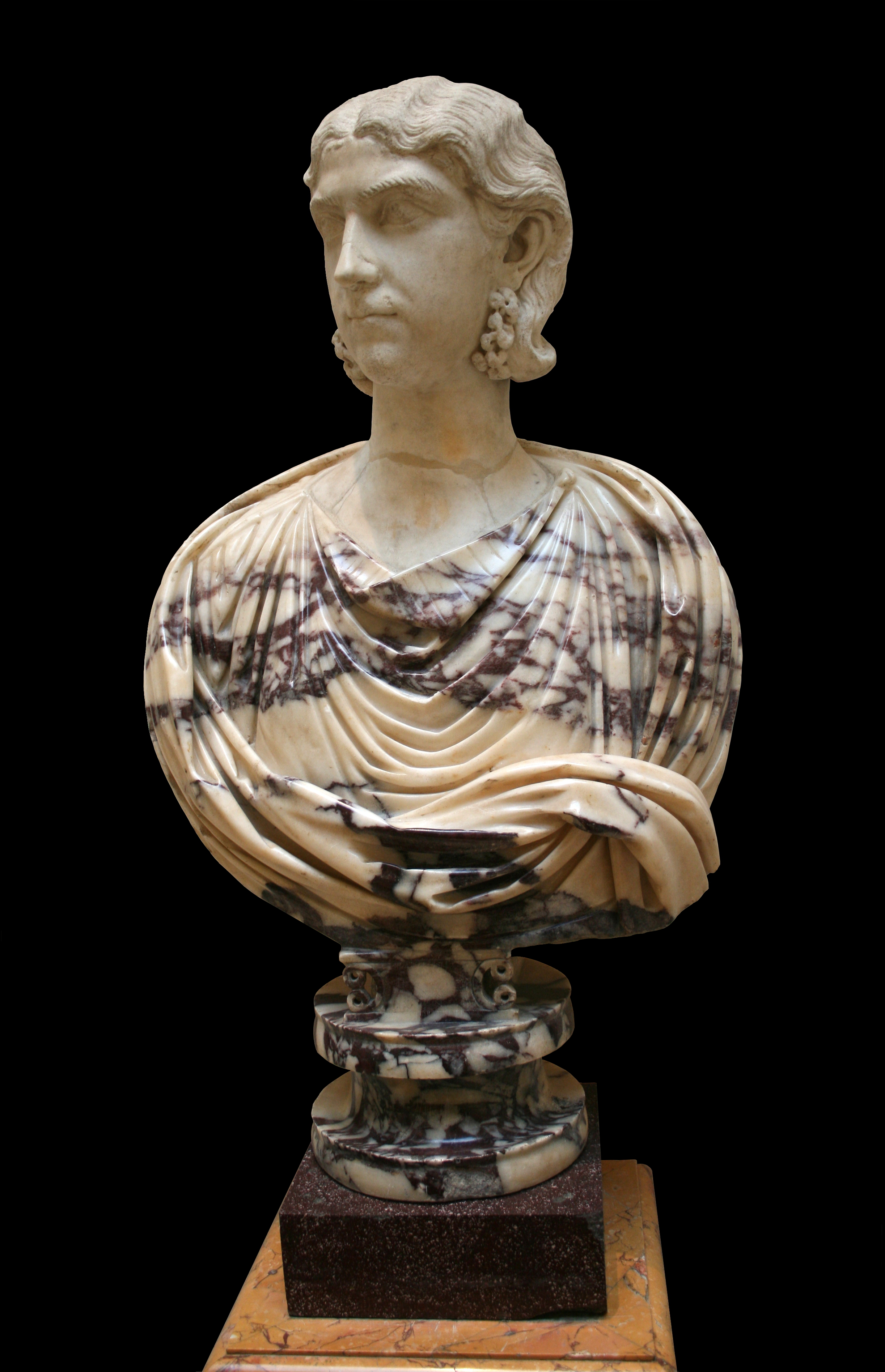 Portrait of a woman on a probably modern bust in Pavonazzo marble , Roman artwork.